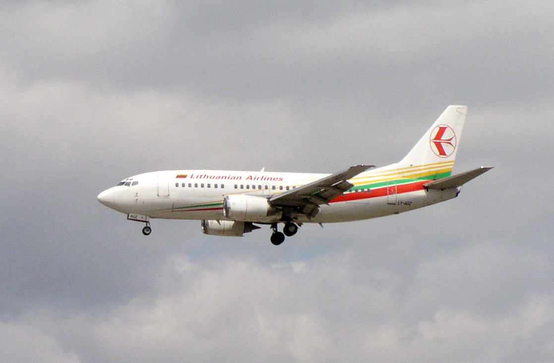 Description: Lithuanian Airlines Boeing 737-500 in Frankfurt/Main, July 2005. Photographer: Arcturus Licence: GFDL + cc-by-sa-2.0-de